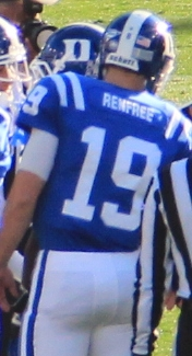 Duke quarterback Sean Renfree, 2012